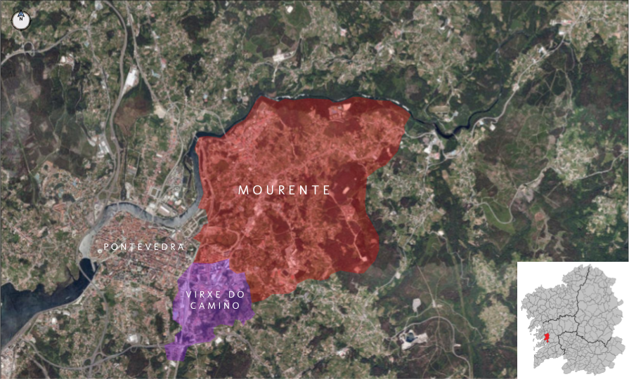 Official borders of the parishes of Mourente (red) and Virxe do Camiño (violet) in the municipality of Pontevedra (Galicia).